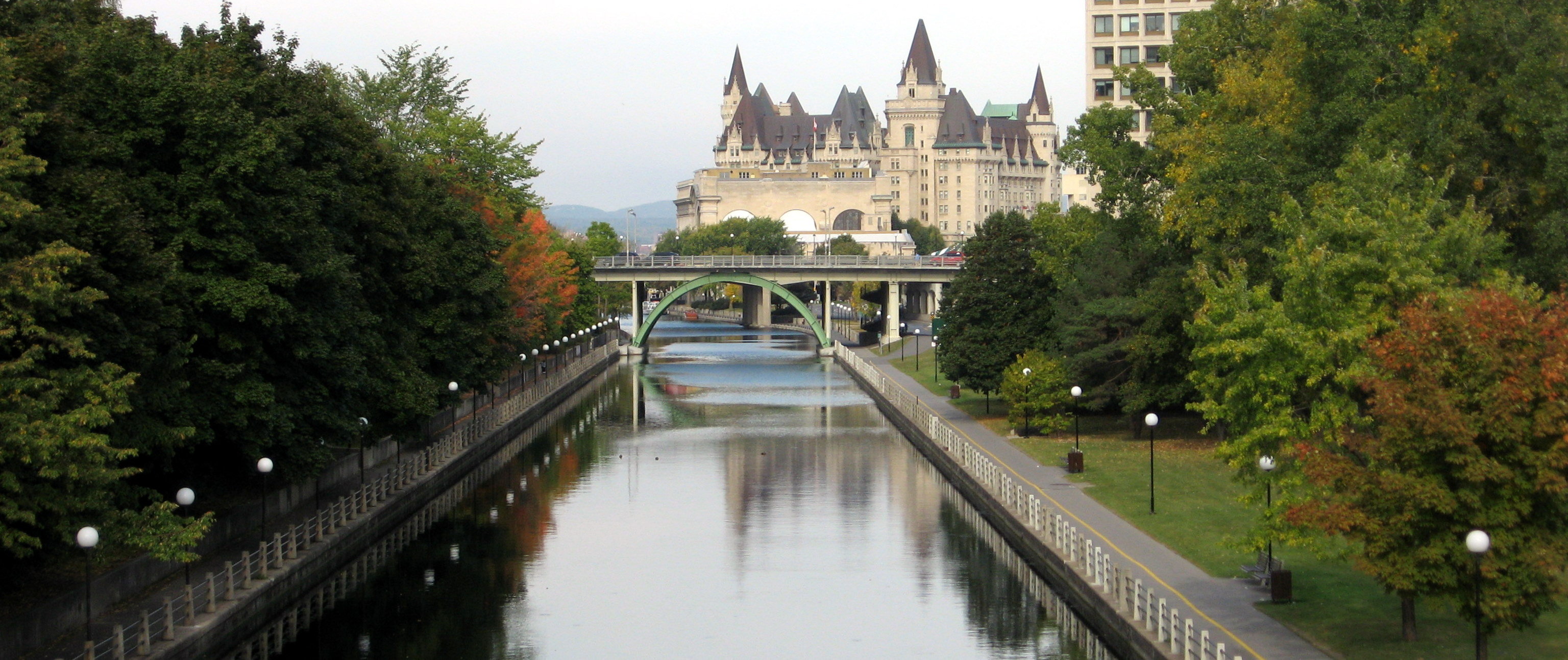 The view towards downtown from the Corktown Pedestrian Bridge in Ottawa, Canada. The Laurier bridge and Château Laurier are visible.